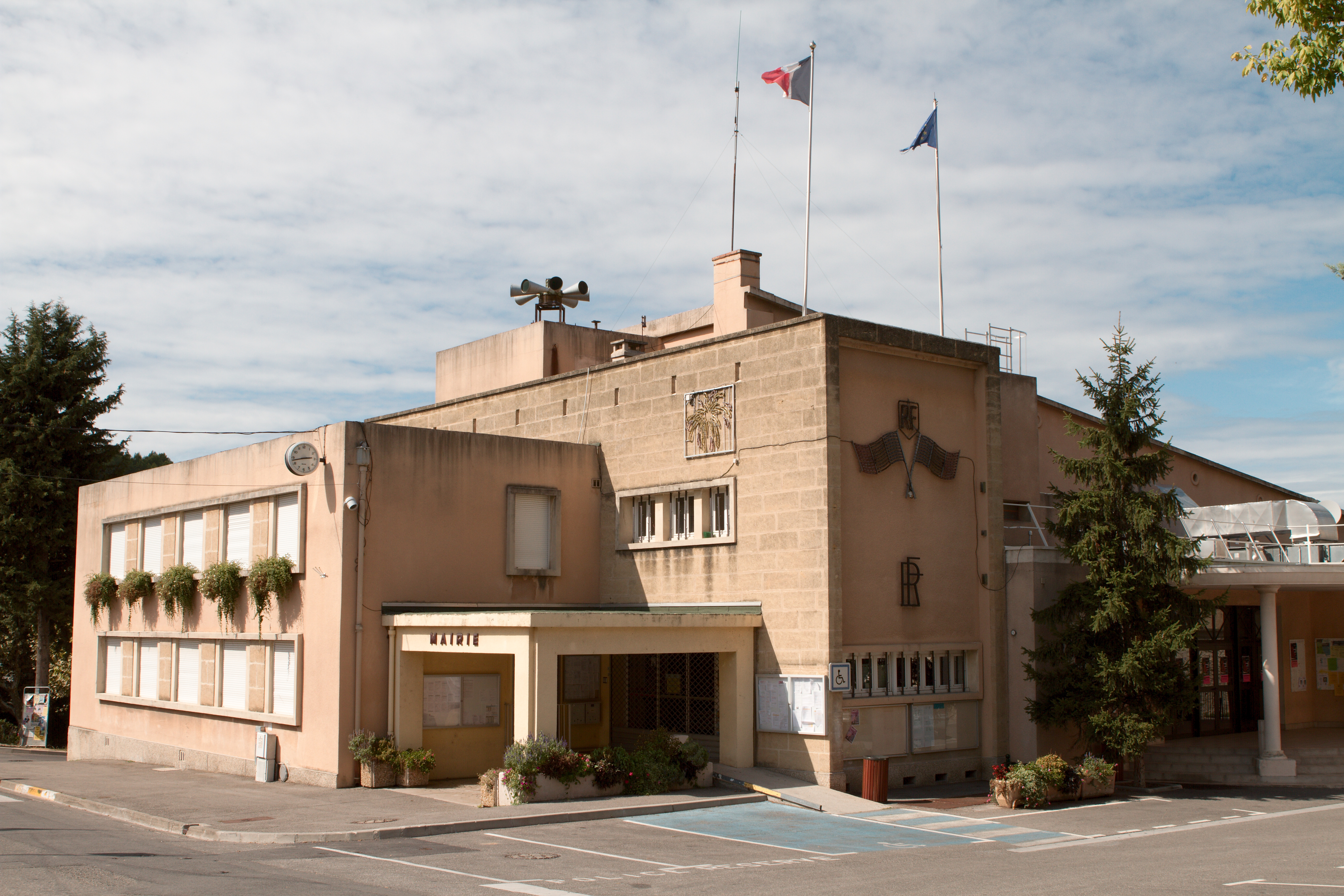 The town hall of Meyrargues, Bouches-du-Rhône (France)